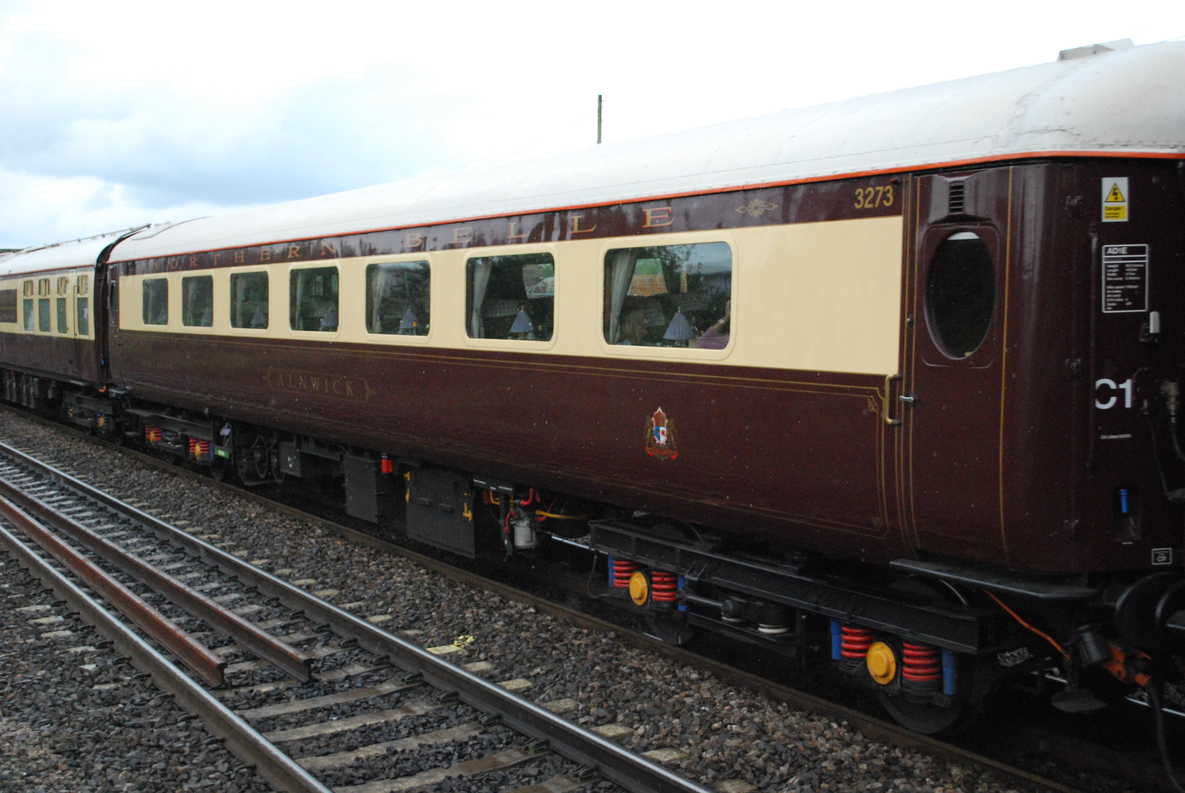 BR Mk.IIe FO No.3273 "Alnwick" of "The Northern Belle" in it's livery, Diagram 82, Lot 30843, built Derby 1973. The IIe's for "The Northern Belle" have been refurbished to Pullman standards and are very luxurious. At Patchway, 04/12.